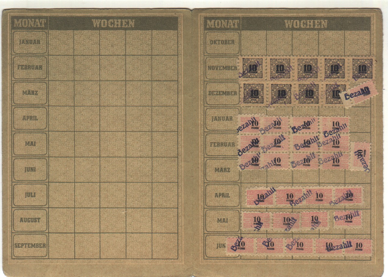 Interiours of Member's card of Free Confederation of German Trade Unions from 1948